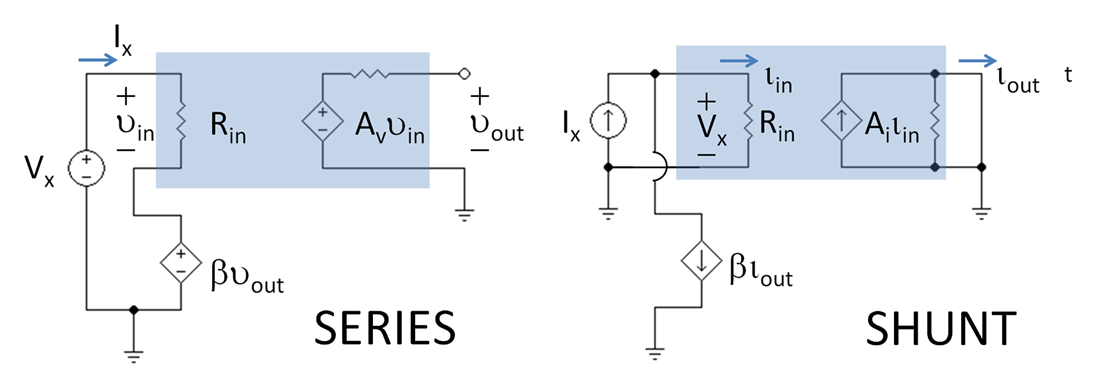 Schematic for feedback amp input resistance